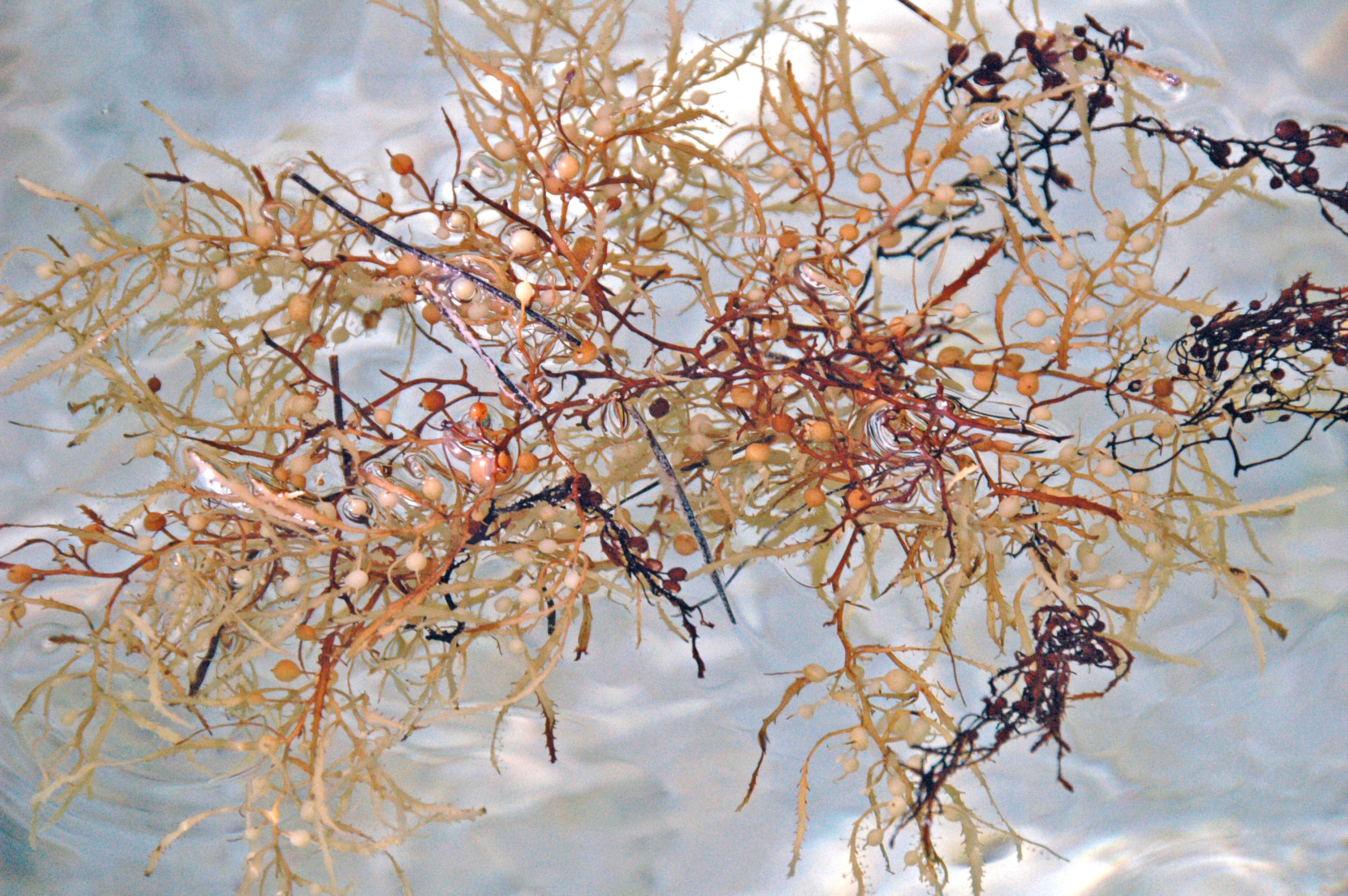 Sargassum natans (Linnaeus, 1753) at a shallow water sea surface. Sargassum natans is a megaplanktonic brown alga that stays suspended in the water column using small, subspherical, gas-filled floats. Some other species of Sargassum are benthic (rooted or attached to the seafloor). Classification: Phaeophyta, Fucales, Sargassaceae Locality: just west of North Point Peninsula, northeastern San Salvador Island, eastern Bahamas